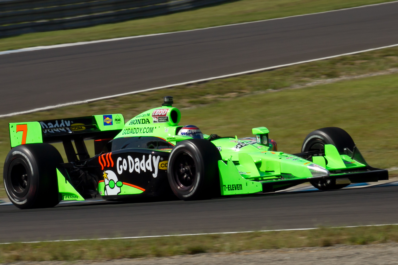 IndyCar Series 2011 Rd.15 Indy Japan 300: Danica Patrick (Andretti Autosport)